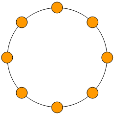 A cycle graph, or (as a Computer CPU interconnection network) ring topology.